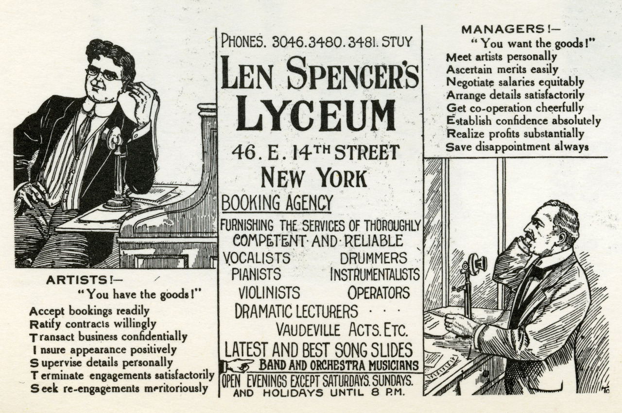 Advertisement for Len Spencer's Lyceum, a New York talent agency 1907-1914. Reprinted in Hillandale News no. 34 without attribution of original source.